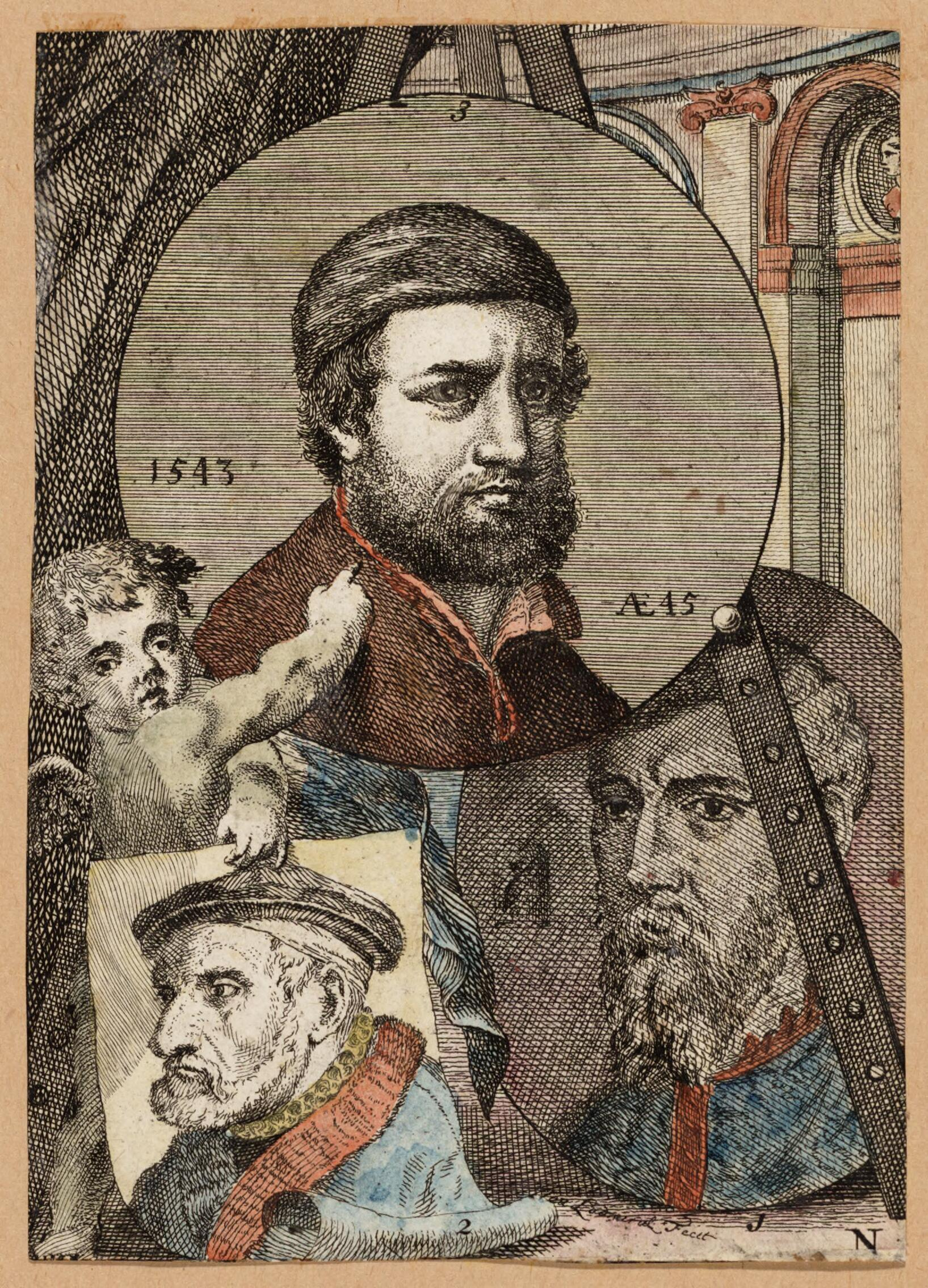 P117 N Hendrik met de Bles - Lukas Gassel van Helmond - Hans Holbein II This image is available from the Netherlands Institute for Art Historyunder digital ID 171945. This tag does not indicate the copyright status of the attached work. A normal copyright tag is still required. See Commons:Licensing.